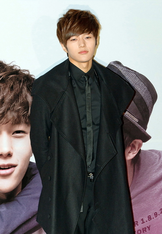 L (A member of Infinite (South Korean idol group)) on January 25, 2012